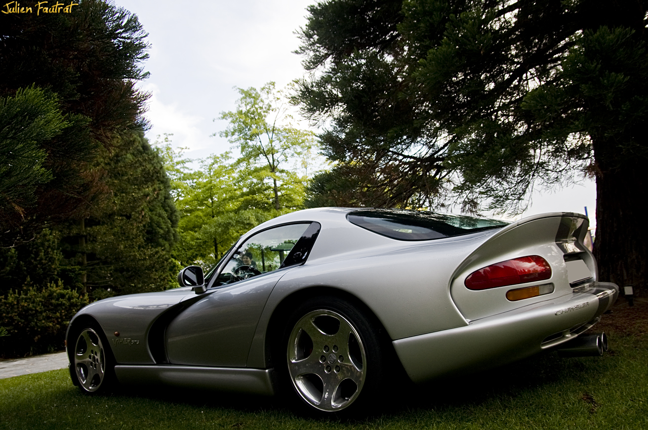 Dodge Viper GTS